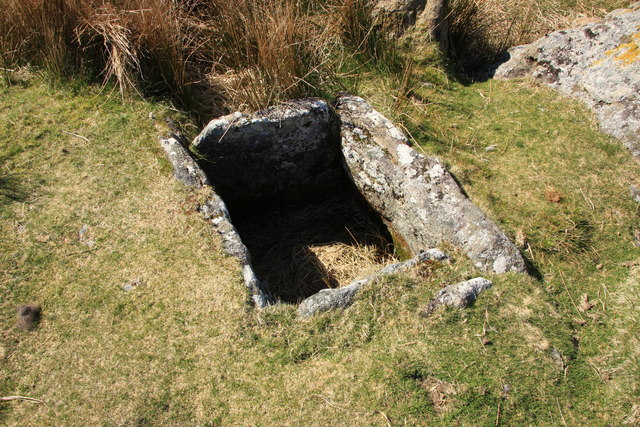 Grim's Grave The cist in the centre of the stone circle.